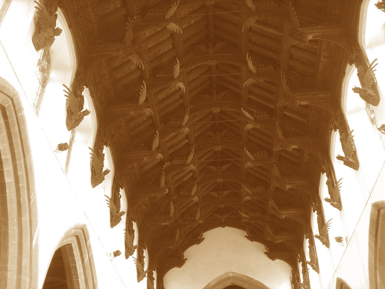 Carved angels in the ceiling of St Wendreda's church, March, Cambs.